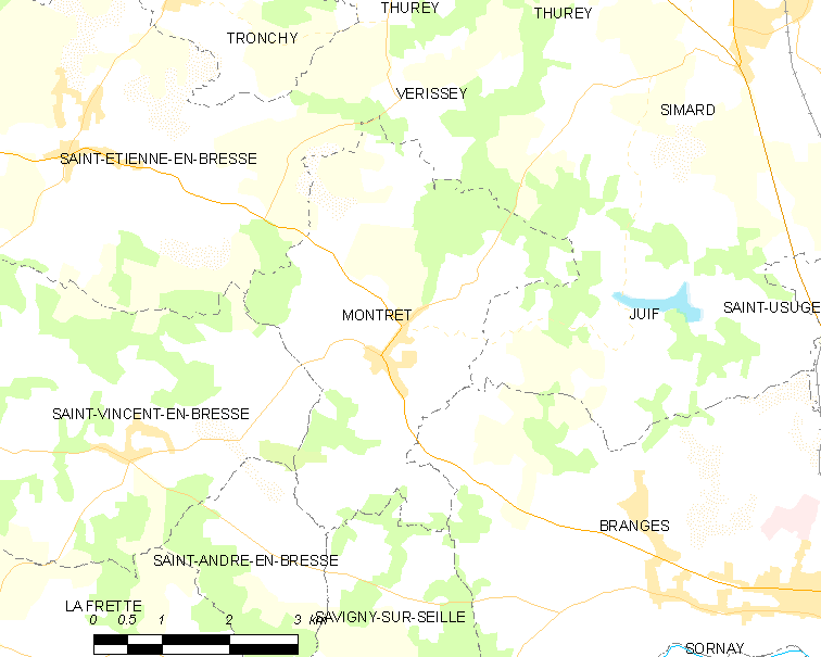 Map of French municipality